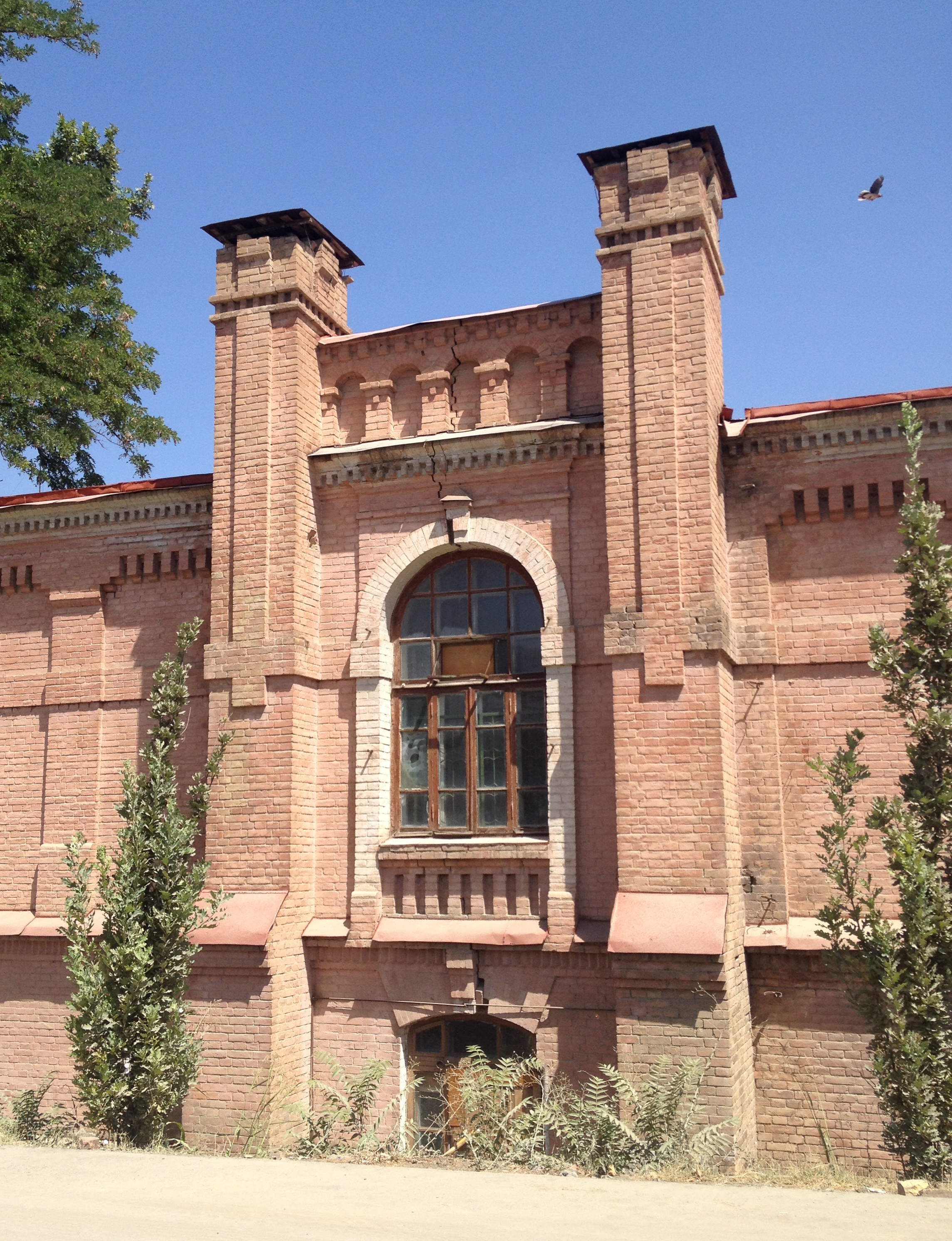 fragment of building of Kaufman orphanage (Institute of Power engineering and automatics in present) in Tashkent